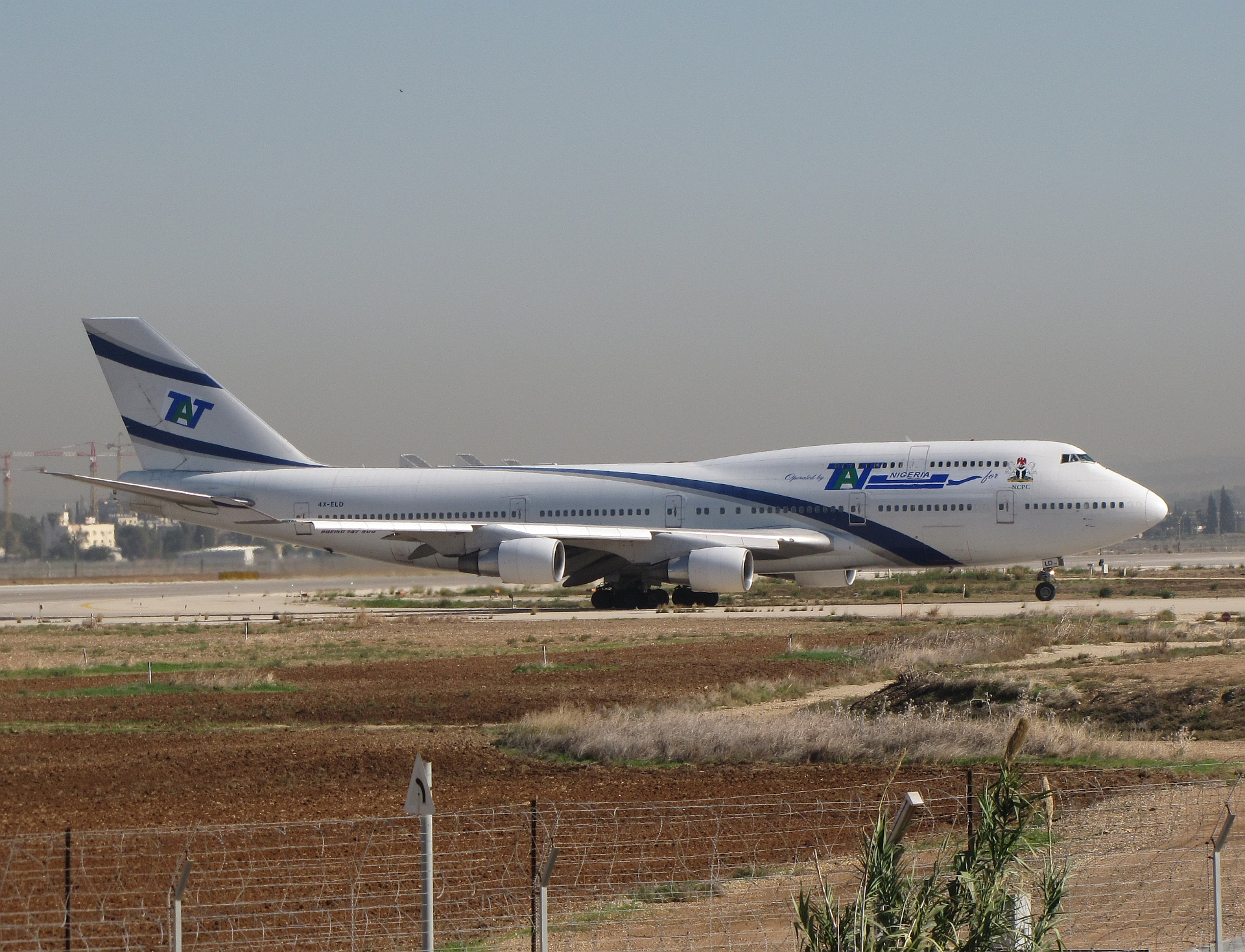 El Al 4X-ELD chartered to TAT Nigeria